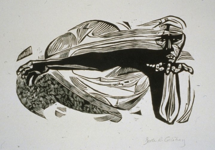 Purple and Ash, by Berta Rosenbaum Golahny, wood engraving, 15" x 14"